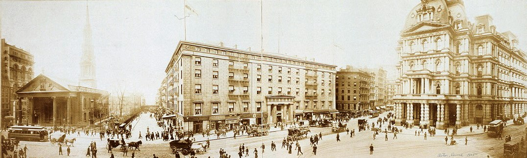 Photo of Astor House, St. Paul's, and old U.S. Post Office (right) on Broadway in New York City. Photographic print : gelatin silver ; 11 x 29.5 in.